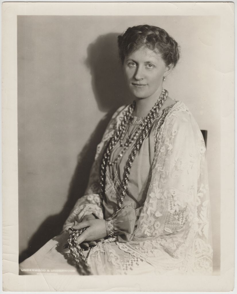 Eveline Maydell in stylised Polish national costume. The photo belongs to the set of photos taken before the opening of the exhibition of Evelines silhouettes in New York